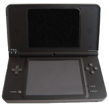 A Nintendo DSi XL.